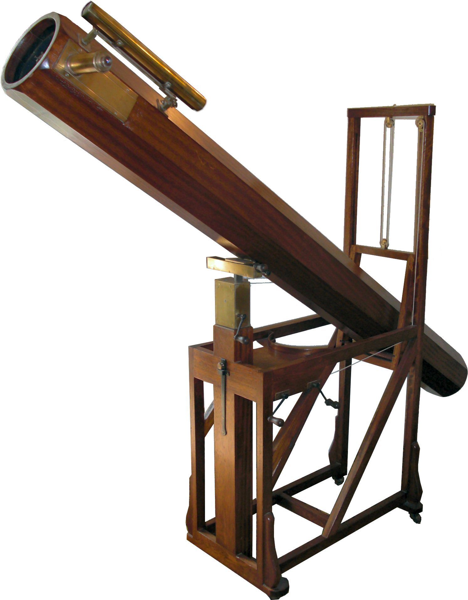 Model of Telescope with which William Herschel discovered Uranus. In the Herschel Museum of Astronomy in Bath. The secret of Herschel's success as an observer was the power and magnification of his telescopes. This seven foot long, six inch diameter, ƒ14 reflector was particularly favoured. Its main mirror at the bottom of the tube and the secondary mirror near the top in front of the ocular were made of speculum metal. It was with a seven foot telescope that Herschel made the discovery of the planet Uranus in 1781